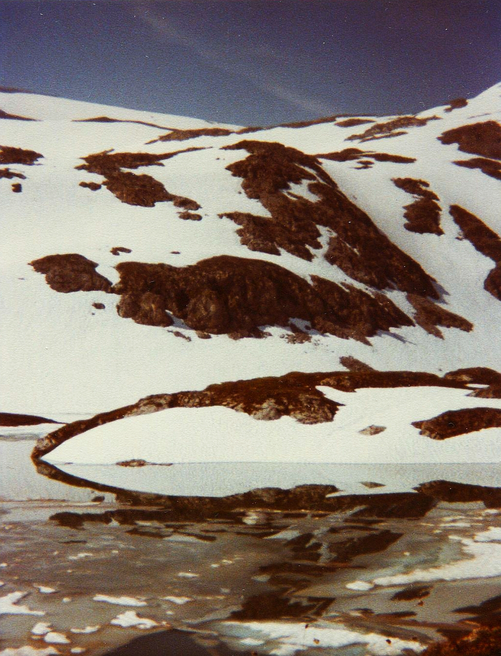 Lais da Rims, Grisons, Switzerland.